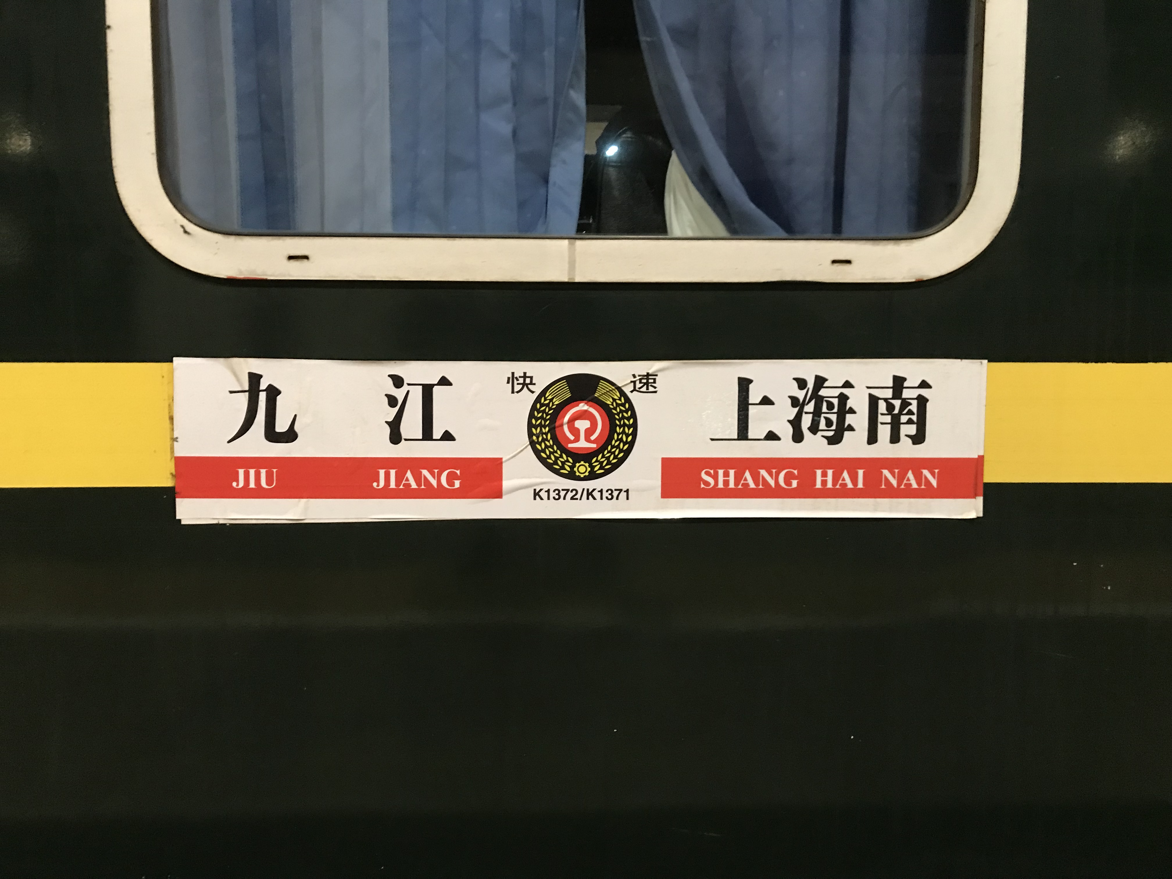 K1272-1373 between Shanghainan and Jiujiang